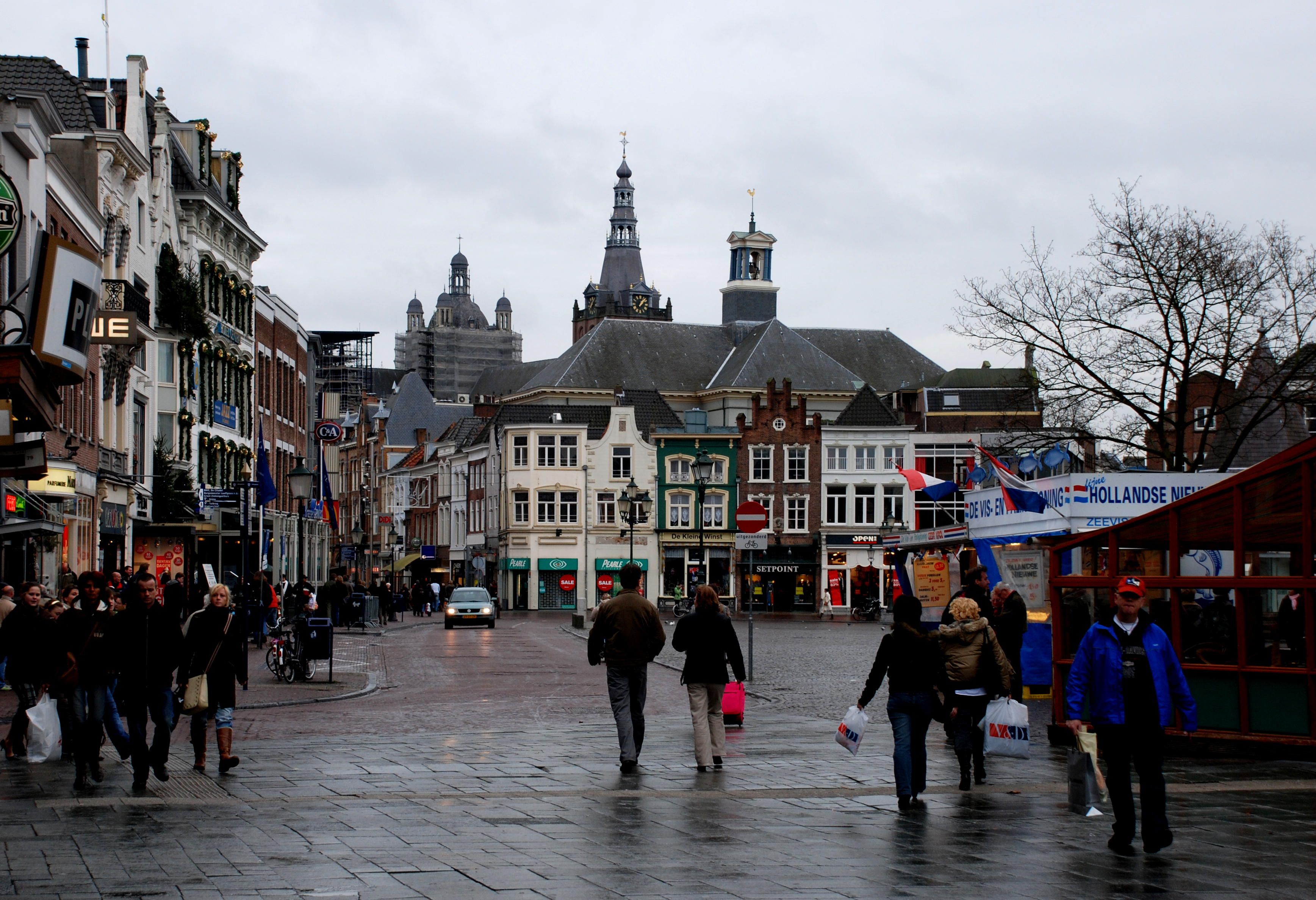 's-Hertogenbosch / Den Bosch Market Square